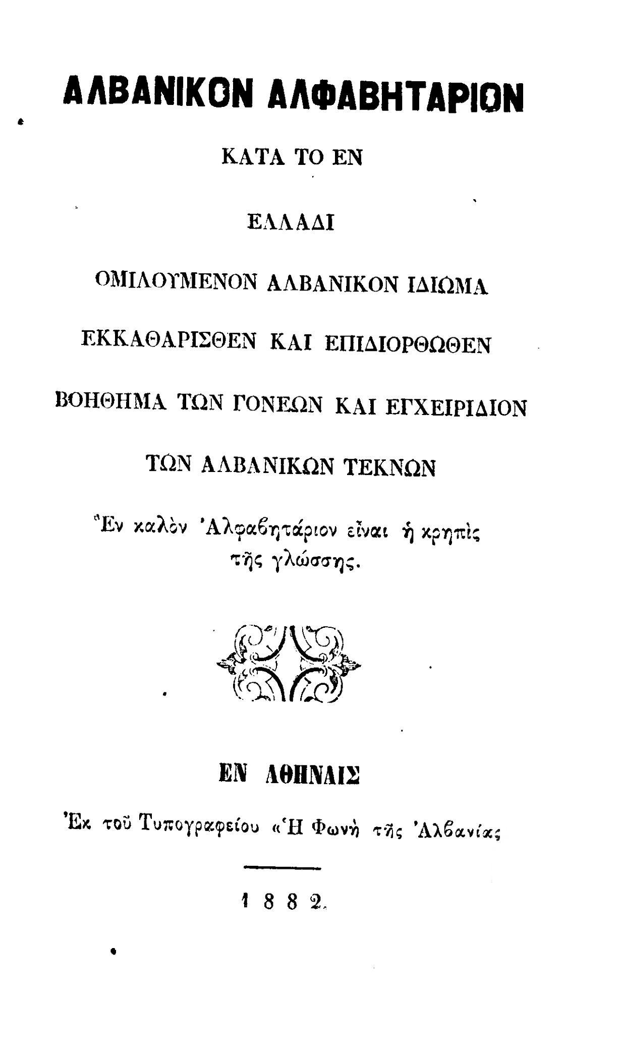 An Albanian Primer, according to the Dialect as spoken in Hellas, cleared and corrected; a Helper to the Parents and an Enchiridion for the Albanian boys. Athens 1882